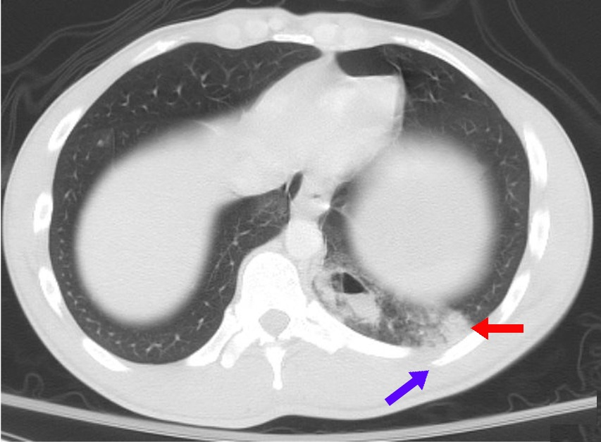 Modified version of Image:Pulmonary contusion CT.jpg, a CT scan of a patient with a "partially-cystic, partially fluid-filled structure" (dark spot near spine on middle-right hand lower portion of image), a rib fracture (lower righthand portion of image), and "subpleural hemorrhage representing a pulmonary contusion (lighter area near rib fracture in lower right hand portion of image, indicated by red arrow), as described at . Blue arrow points to rib fracture.